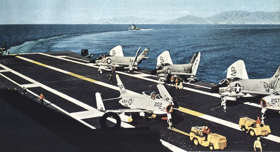 U.S. Navy North American FJ-4B Furys from Attack Squadron 212 (VA-212) "Rampant Raiders" and McDonnell F3H-2N Demons from Fighter Squadron 213 (VF-213) "Black Lions" aboard the aircraft carrier USS Lexington (CVA-16). Both squadrons were assigned to Carrier Air Group 21 (CVG-21) aboard the Lexington for a deployment to the Western Pacific from 29 October 1960 to 6 June 1961.